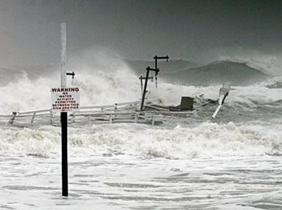 Daytona Beach Main Street Pier collapsing during Hurricane Floyd